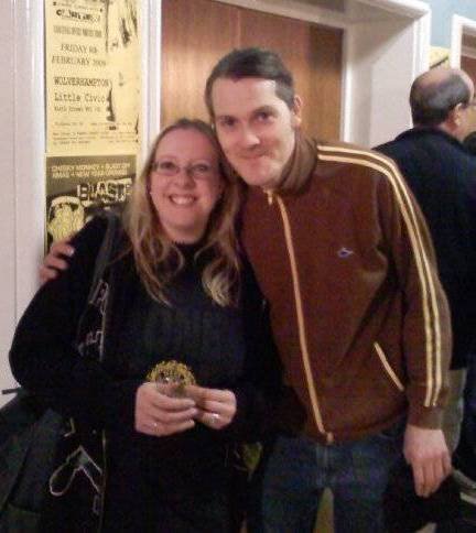 Jonn Penney of Ned's Atomic Dustbin with my wife! :-)